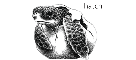 Standard Event System character depiction